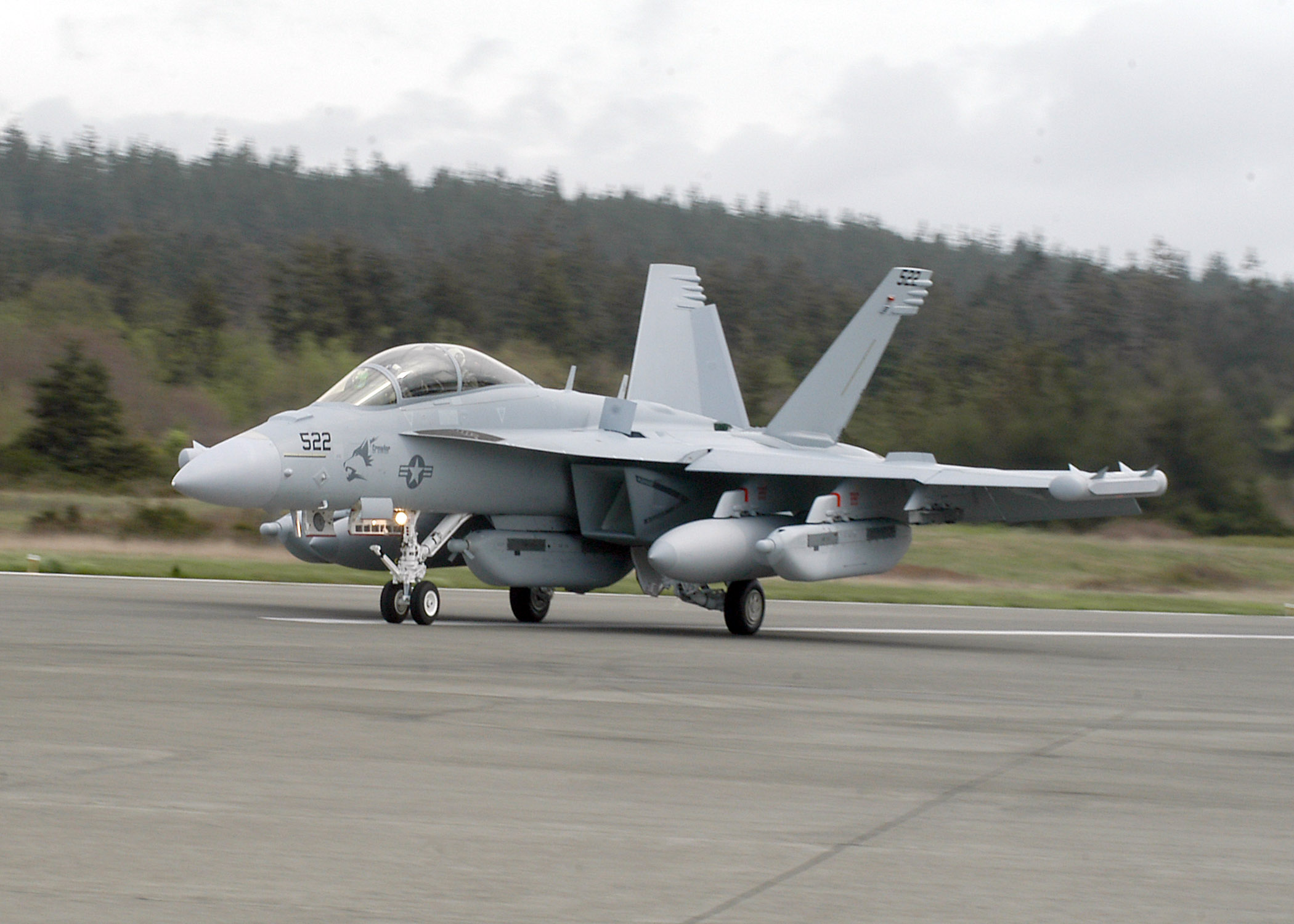 EA-18 Growler with 3 AN/ALQ-99 jammers